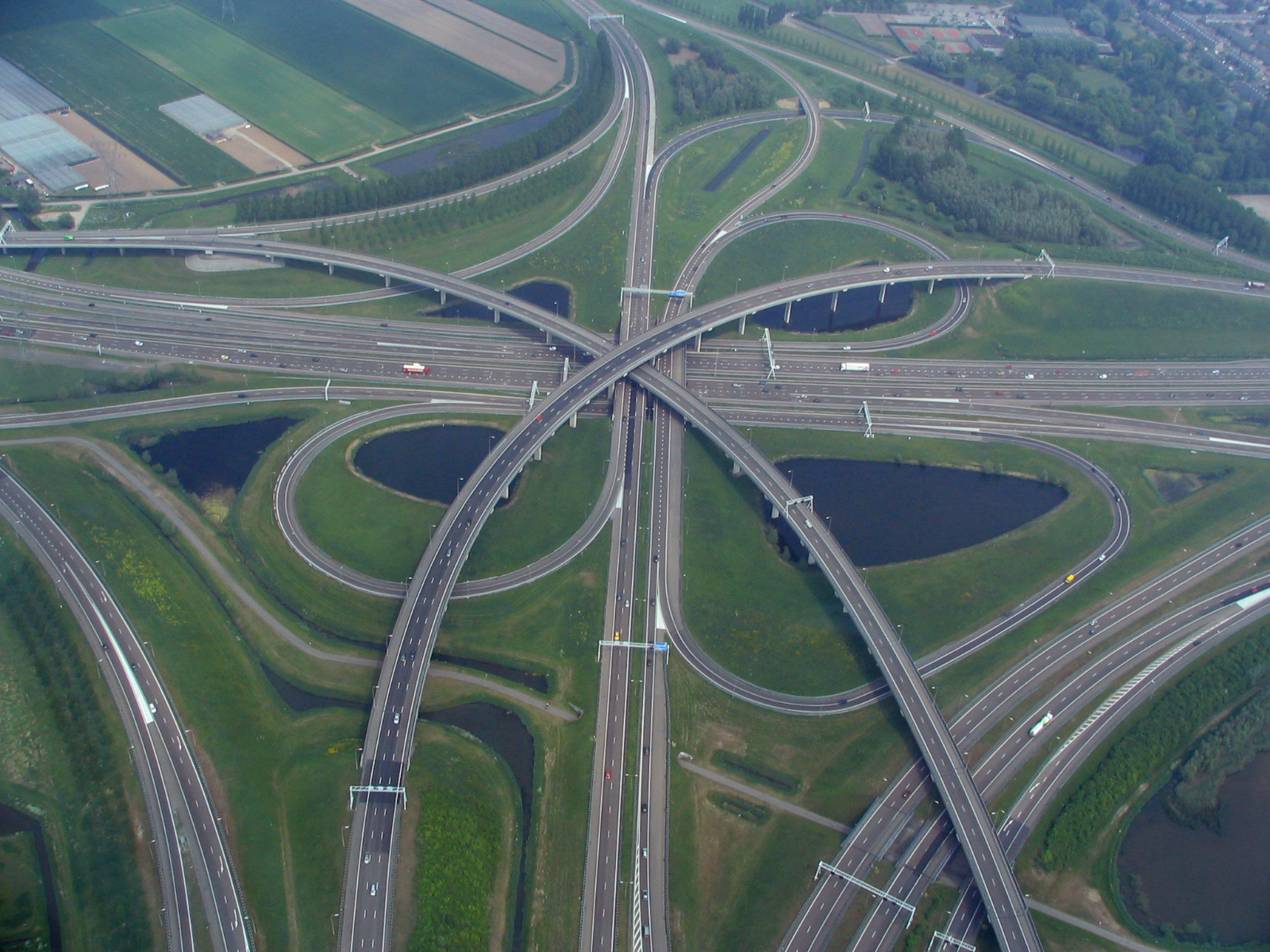 The north (and largest) section of interchange Ridderkerk, The Netherlands, where the motorways A15 and A16 cross each other.